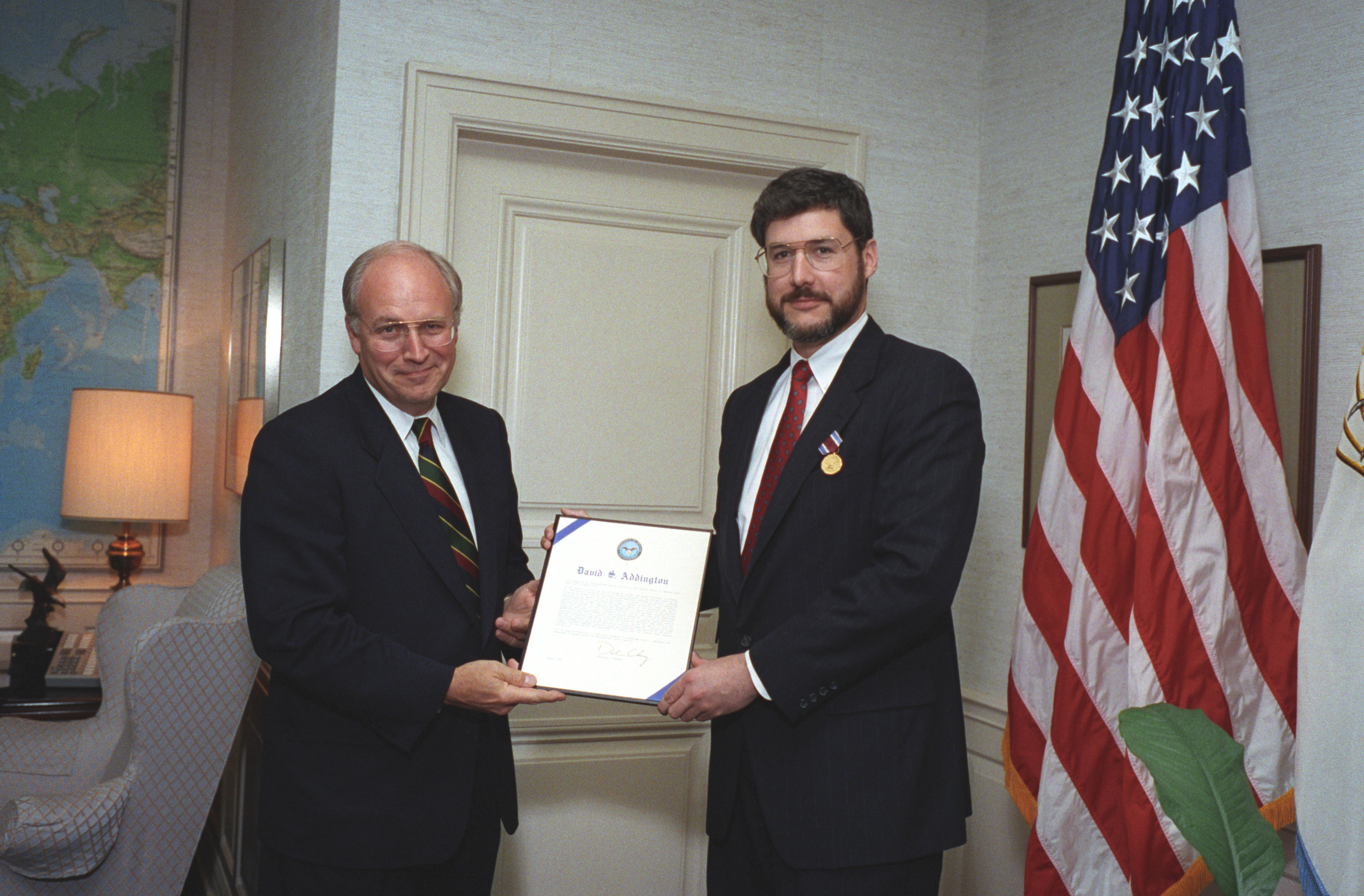 Secretary of Defense Dick Cheney presents award to Mr. David Addington, 9/22/1992